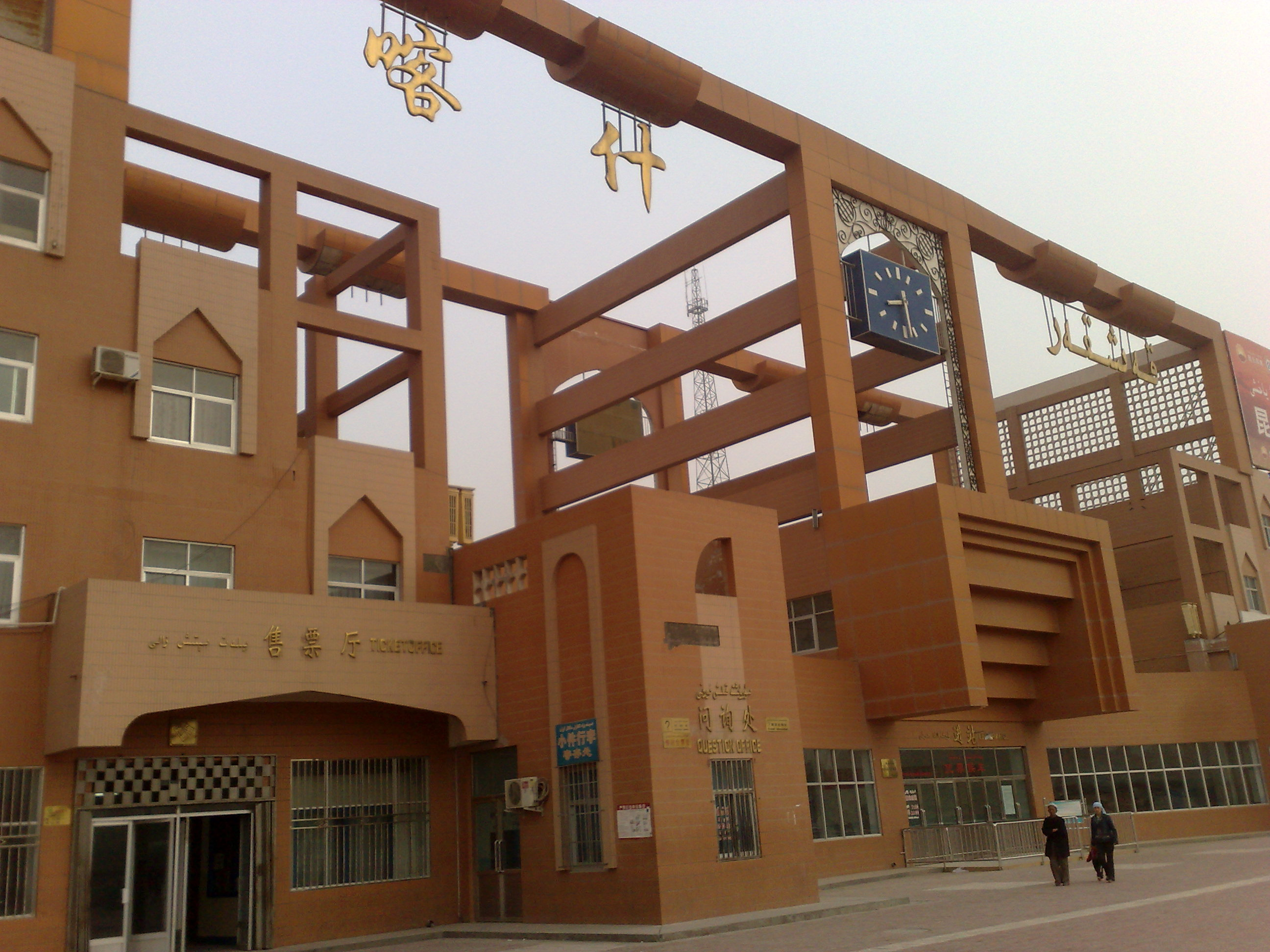 Kashgar railway station 喀什站